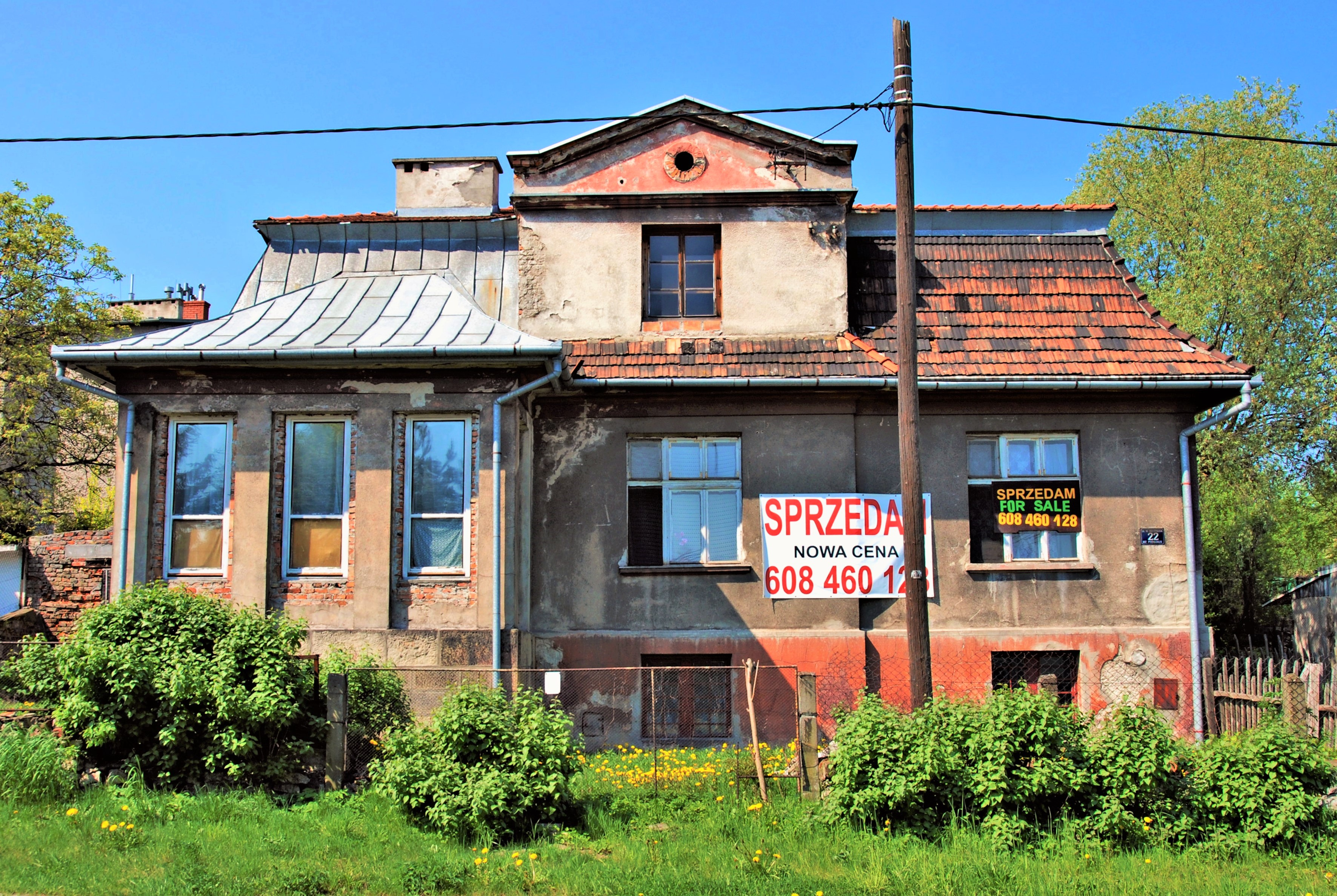 Villa of Amon Göth, commandant of German Concentration Camp Plaszow. 22 Heltmana street, Kraków, Poland